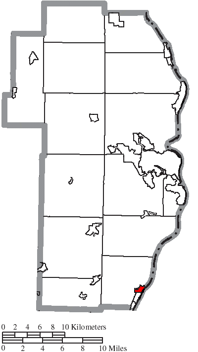 Map of the municipal and township boundaries of Jefferson County, Ohio, United States, as of the 2000 census, with the location of the village of Rayland highlighted. Township borders are shown only in unincorporated areas in order to differentiate incorporated and unincorporated areas more clearly.